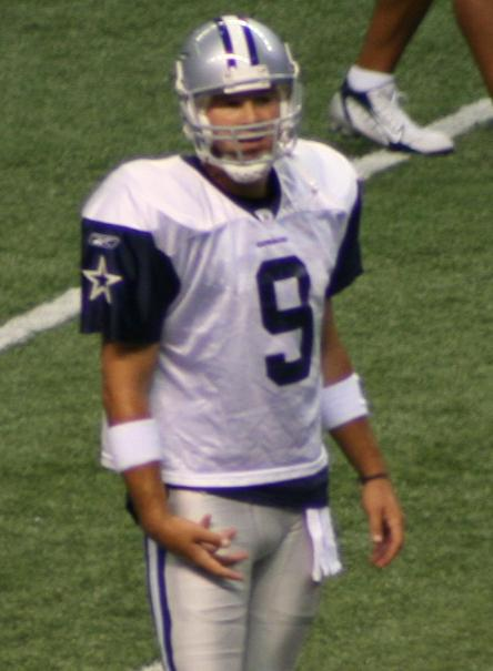 Tony Romo (en) at a Dallas Cowboys (en) preseason.